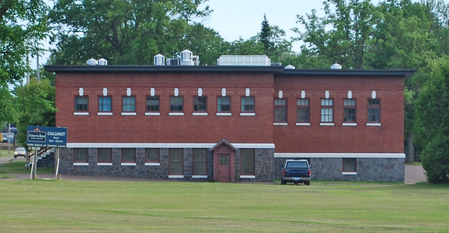 Calumet Bathhouse — in the Calumet Downtown Historic District —In Calumet, Upper Peninsula, Michigan.